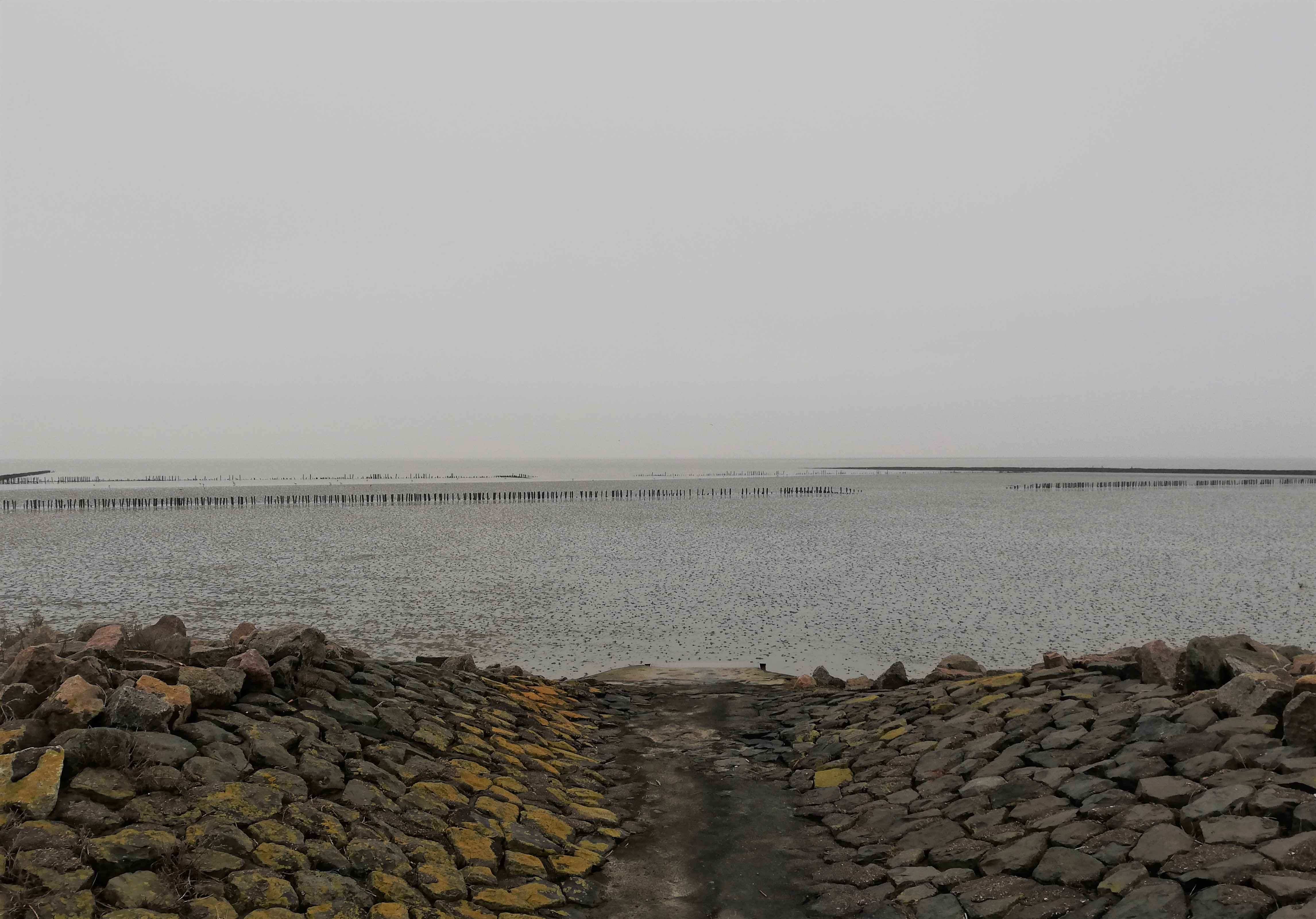 The picture shows the Wadden Sea in the muncipality Westerdeichstrich at the North Sea in Dithmarschen.